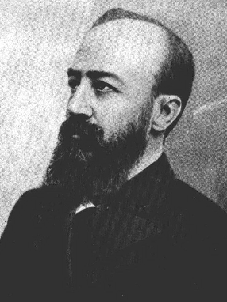 Krasnov, Andrej Nikovaevich (1862-1914), Russian botanist